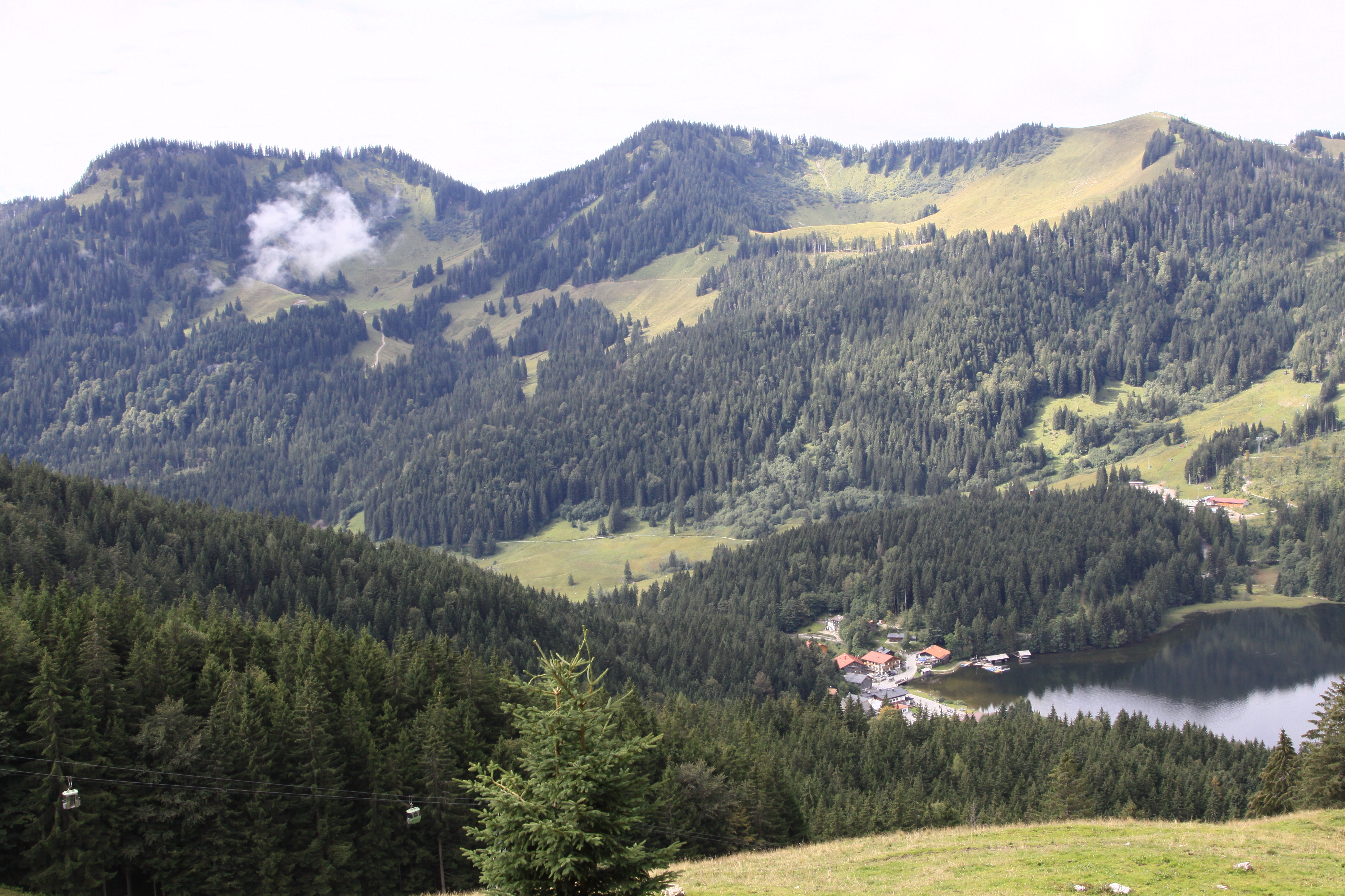 Stolzenberg (1609m), Rotkopf (1602m) and Roßkopf (1580m) (left to right) in the Bavarian Mangfallgebirge outh-east of the Spitzingsee (lower right)